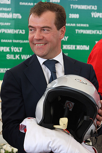 TURKMENBASHI, TURKMENISTAN. At the ceremony marking the final stage of the Silk Way Rally Dakar Series 2009. The event’s organisers presented Dmitry Medvedev with souvenirs of the event – a cup and racing driver’s suit and helmet.